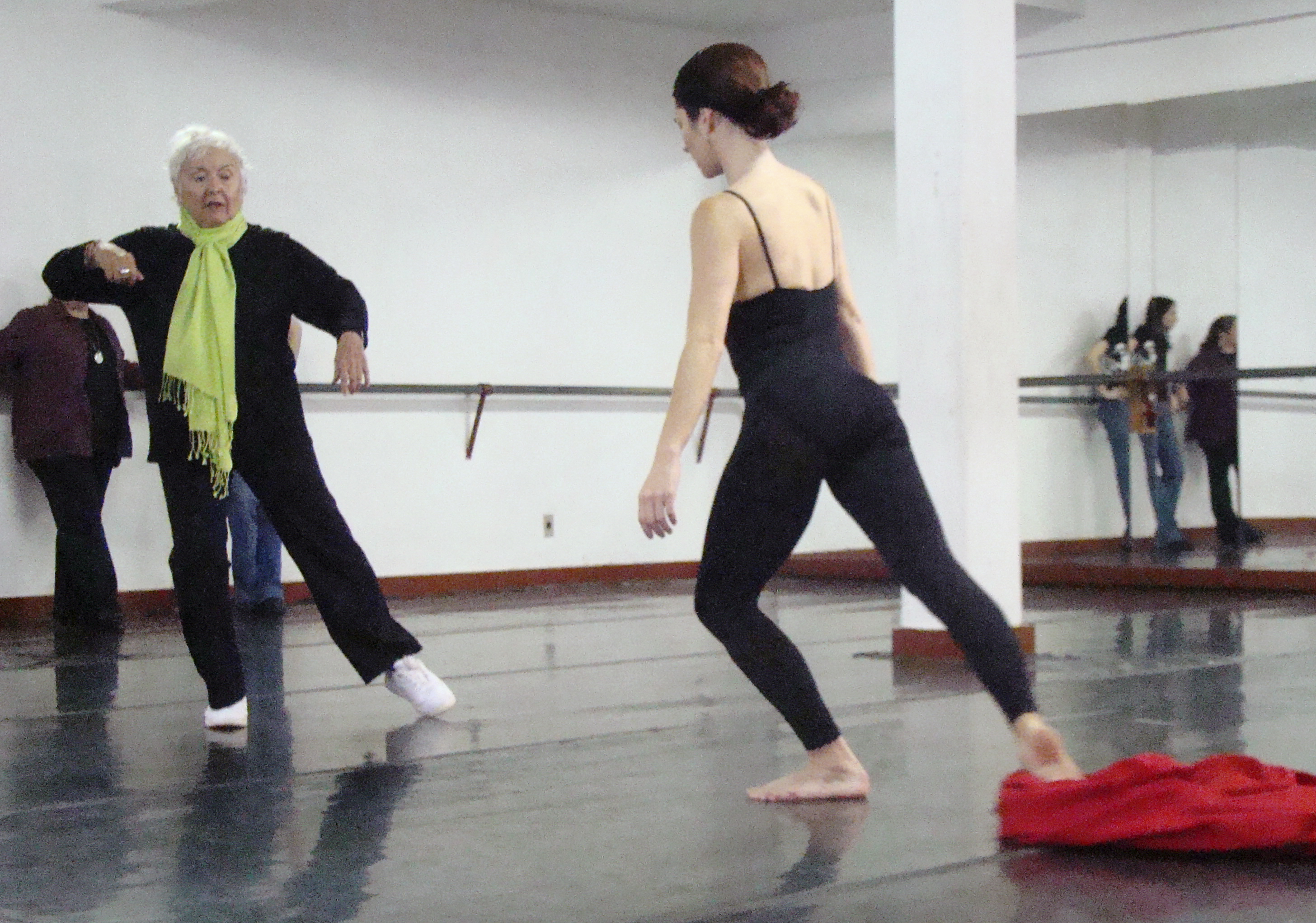 Lourdes Bastos Teaching